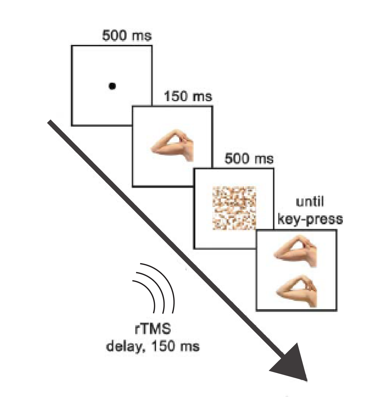 Graph for a psychology experiment.